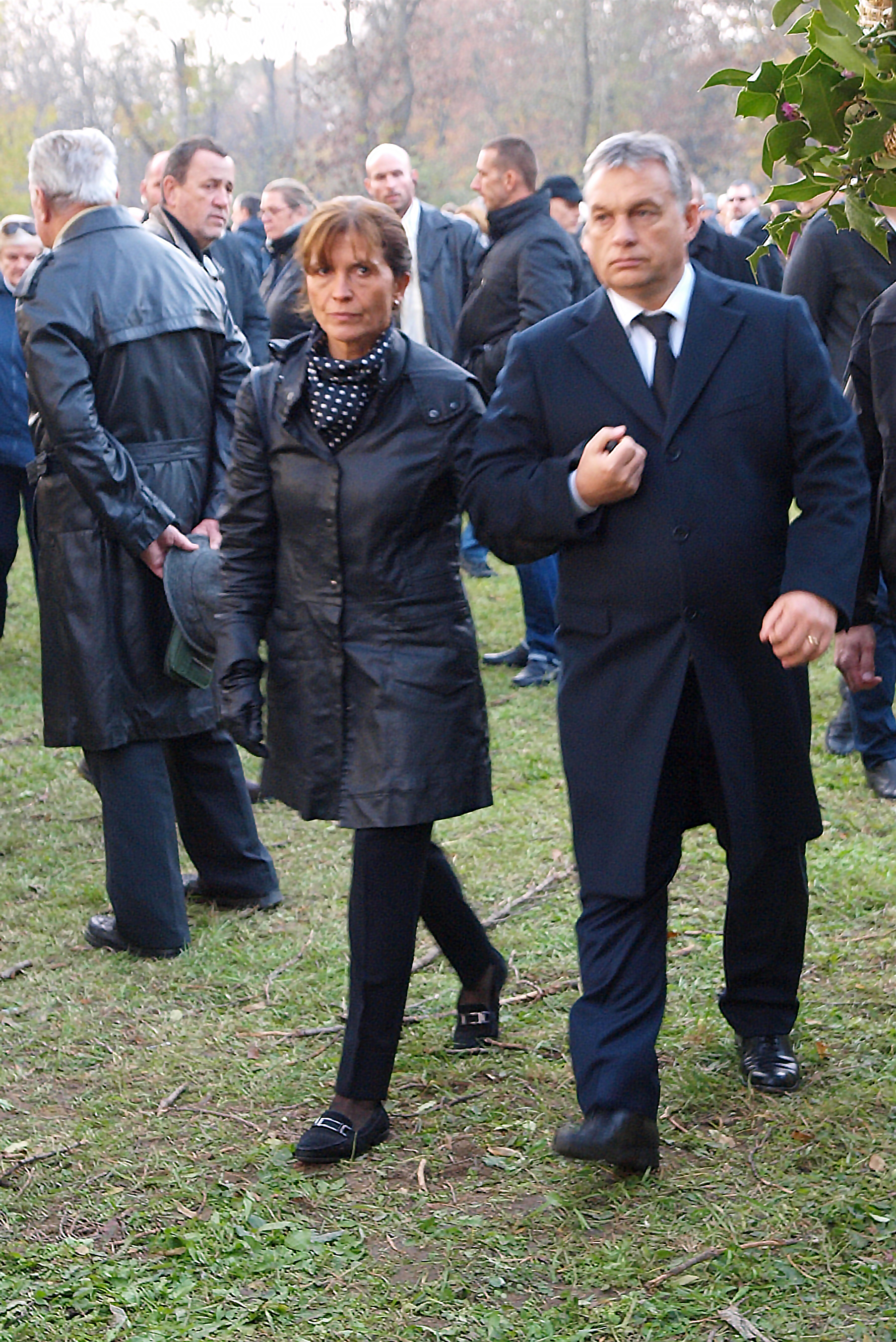 Funeral of Árpád Göncz